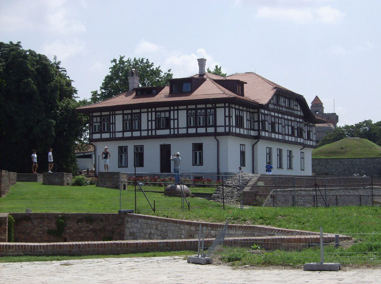 Belgrade - Kalemegdan